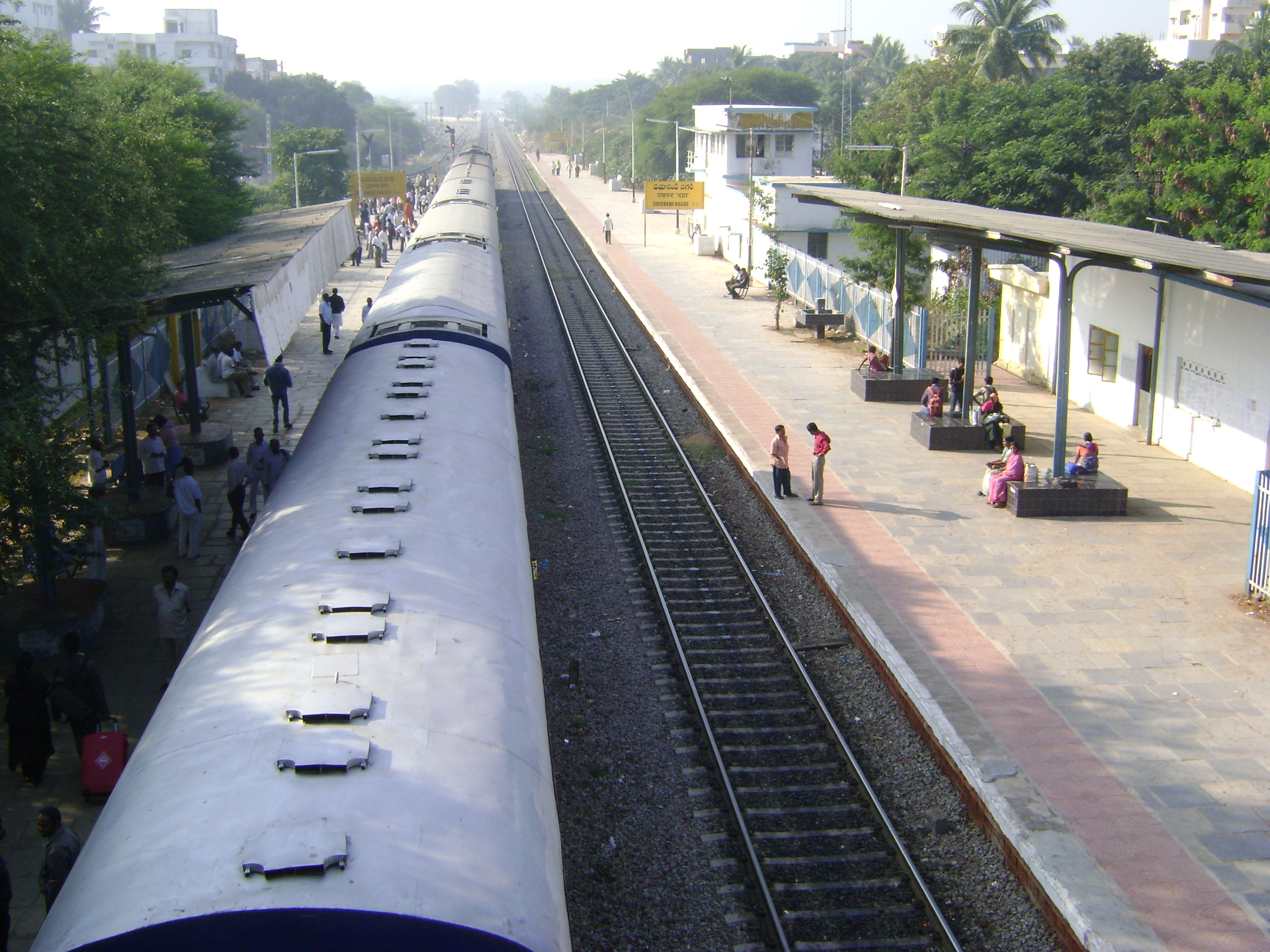 Dayanand Nagar railway station is a station on the Bolarum-Secunderabad Line (BS Line) of the Hyderabad MMTS. Seen here is the Ajanta Express train halting at the station.